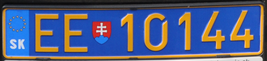 Slovakian diplomatic license plate